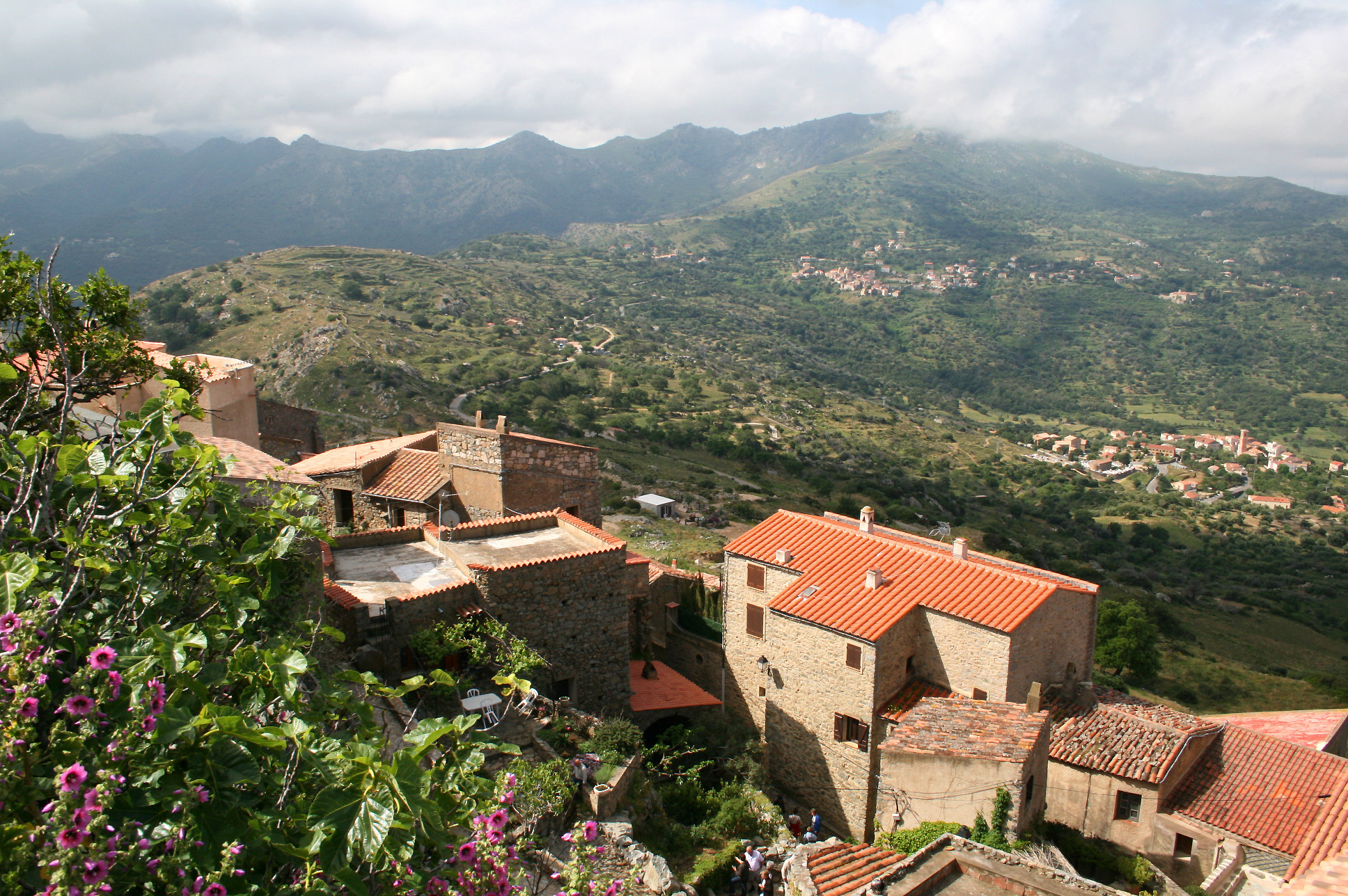 Sant'Antonino (Haute-Corse) France, and the villages of the (Balagne). Walon: Sant'Antonino (Ôte-Corse) - France, èt lès viyadjes di Balagne.